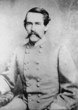 Major General Robert Emmet Rodes, Confederate States Army